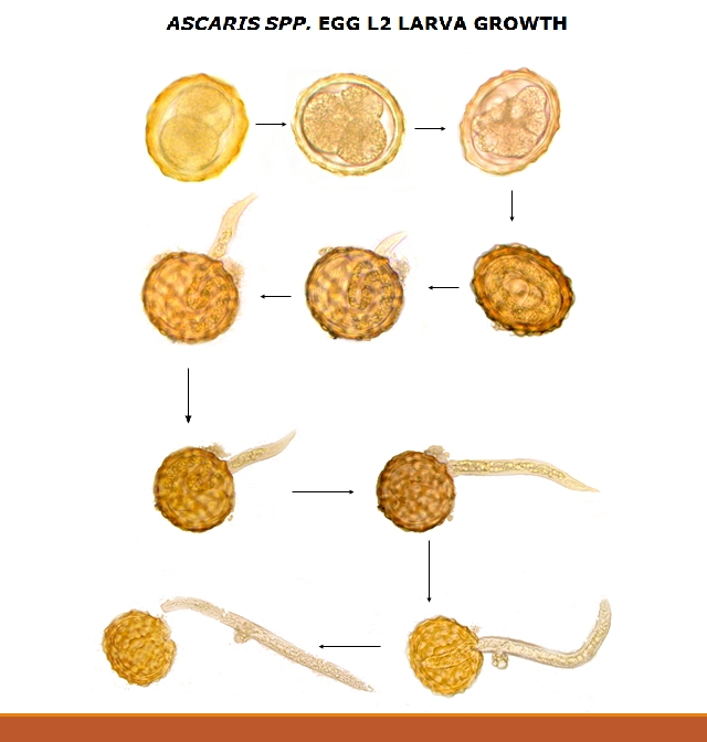 Ascaris egg, incubation process The ascaris egg, incubation process consists in placing the egg in a controlled environment, at 26°C during 28 days, in acidic conditions. This process allows to evaluate if an egg is viable or not, by watching the bipartition of the nucleus, and the growth of the larva.